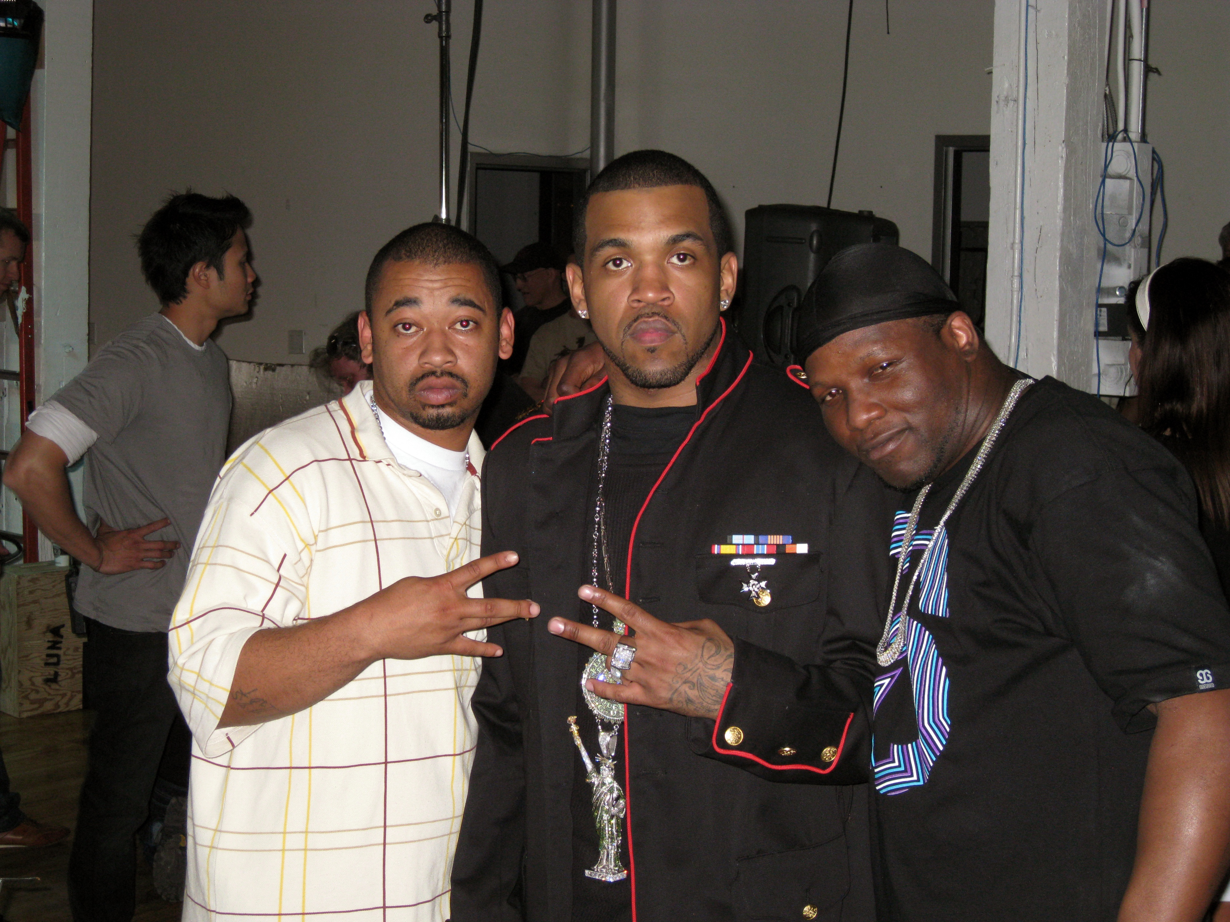 G-Unit at the Rider Pt. 2 video shoot.